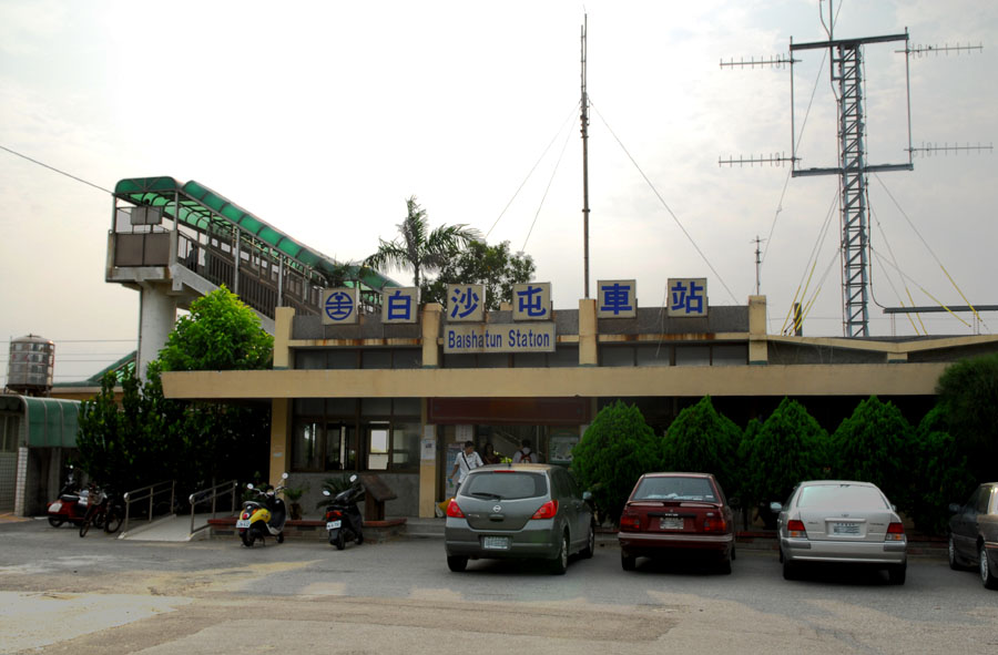 BaiShaTun Station is a local train station of Taiwan's Western main rail line. It's located within the boundary of TongSiao Town, Miaoli County. The name of the station, BaiSha, is derived from the white sand (dried sea salt actually) easily seen in nearby area.